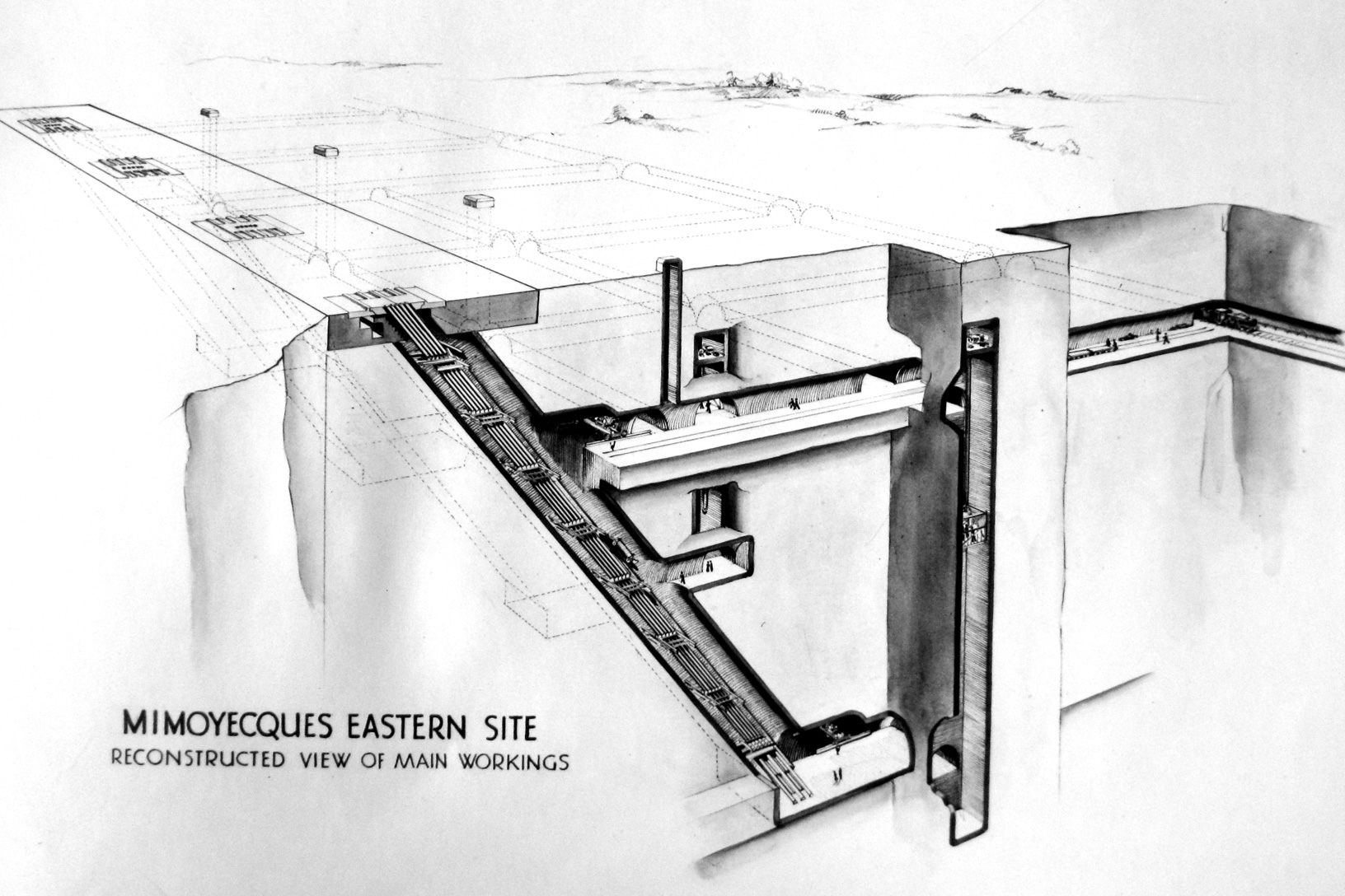 Mimoyecques eastern site. Reconstructed view of main workings. [Original caption]